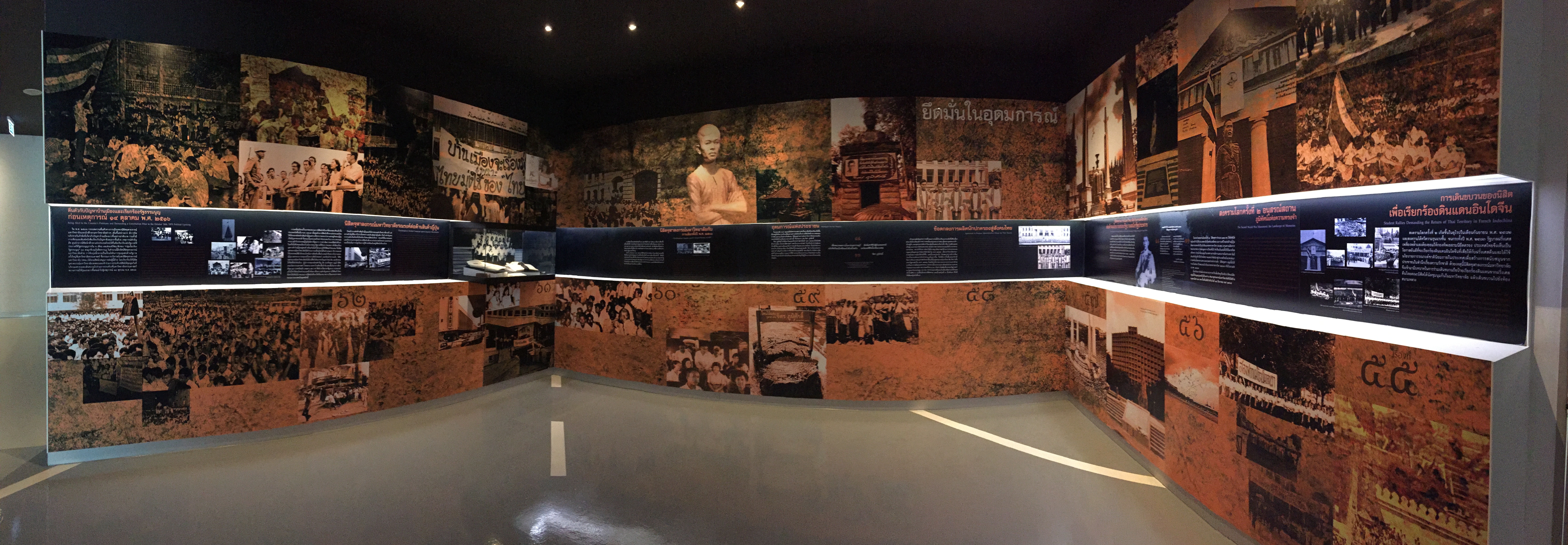 Exhibition about Chulalongkorn University in politics